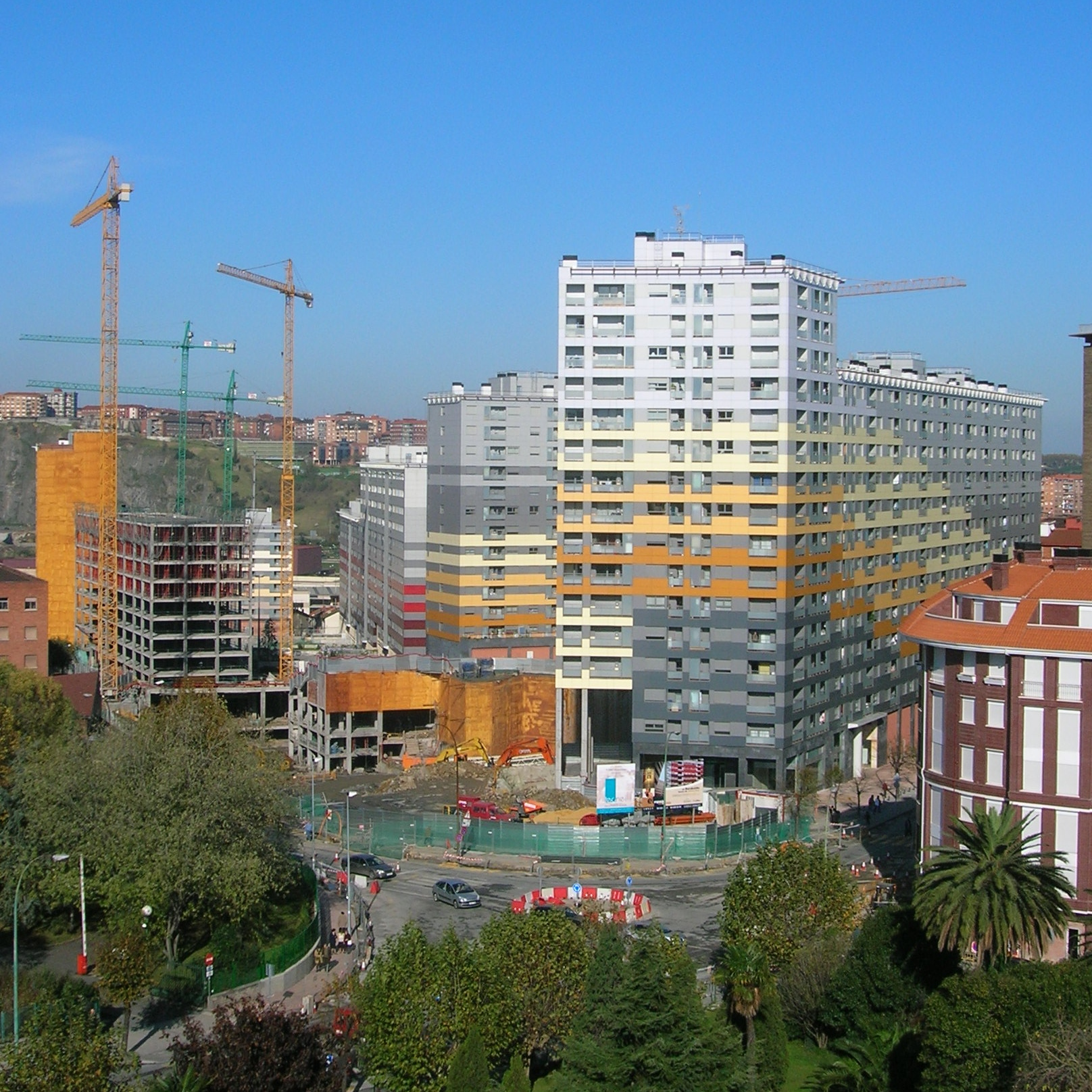 Buildings in Beurko Berria, Barakaldo, Biscay.